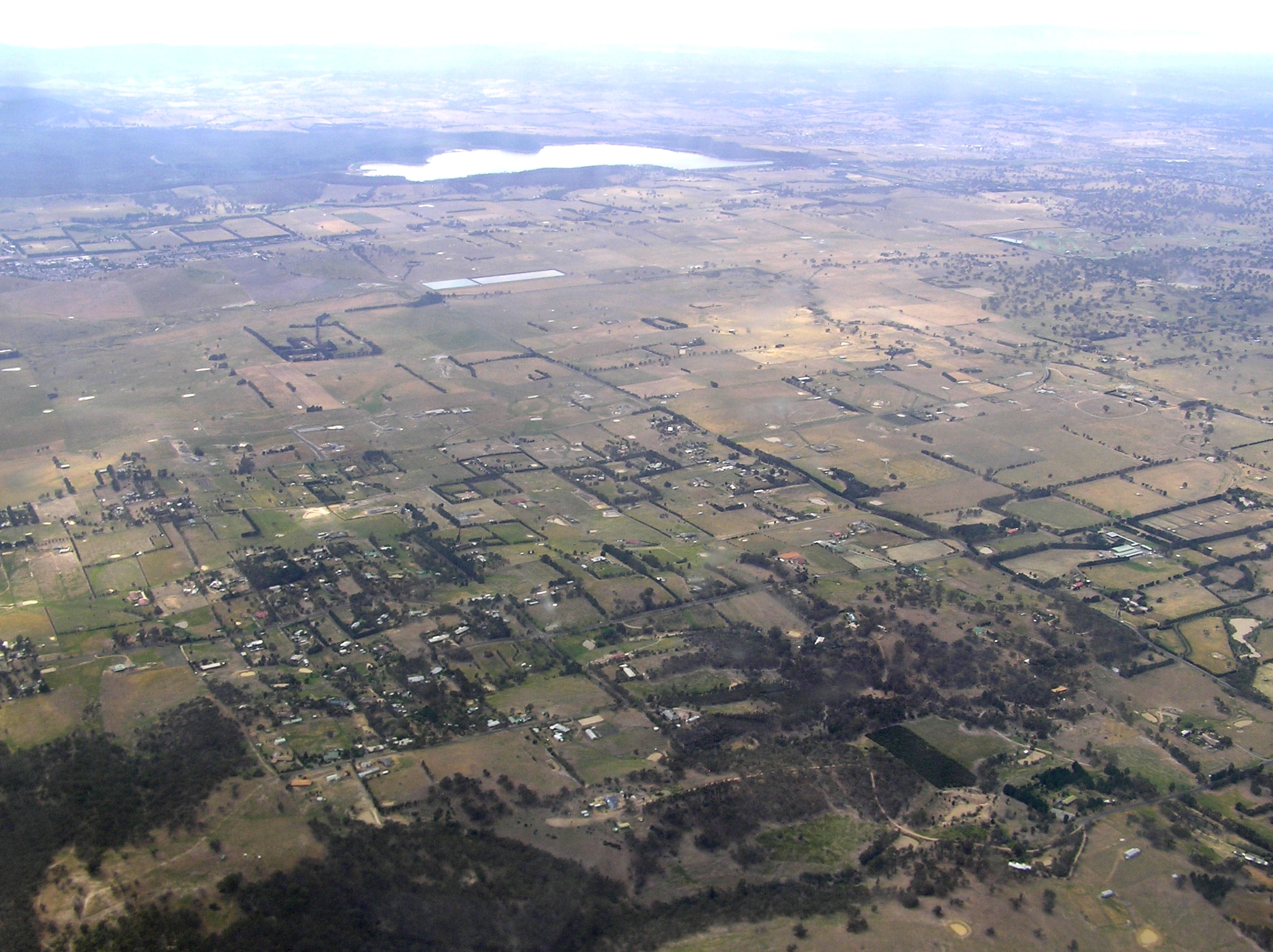 Eden Park North with Yan Yean Reservoir in background (over exposed)